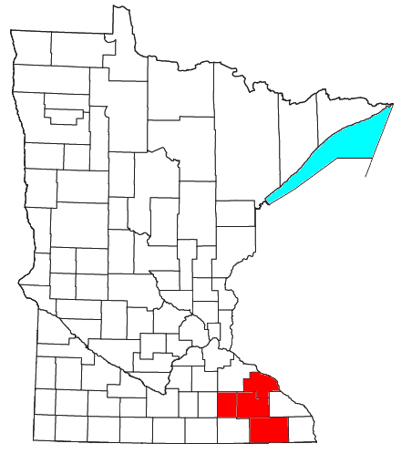 Locator map of the Rochester Metropolitan Statistical Area in the southeastern part of the U.S. state of Minnesota.